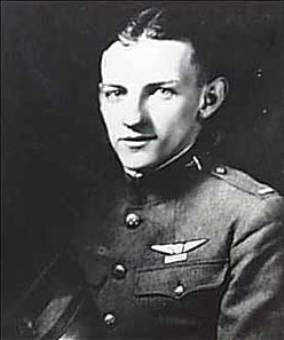 Image of George Vaughn